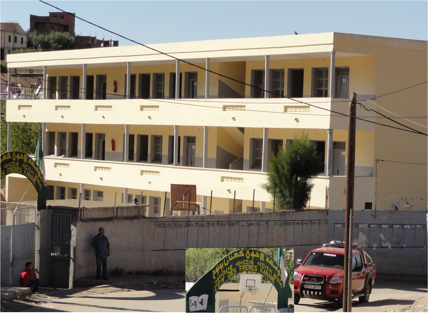 Middle School Kanane Brothers